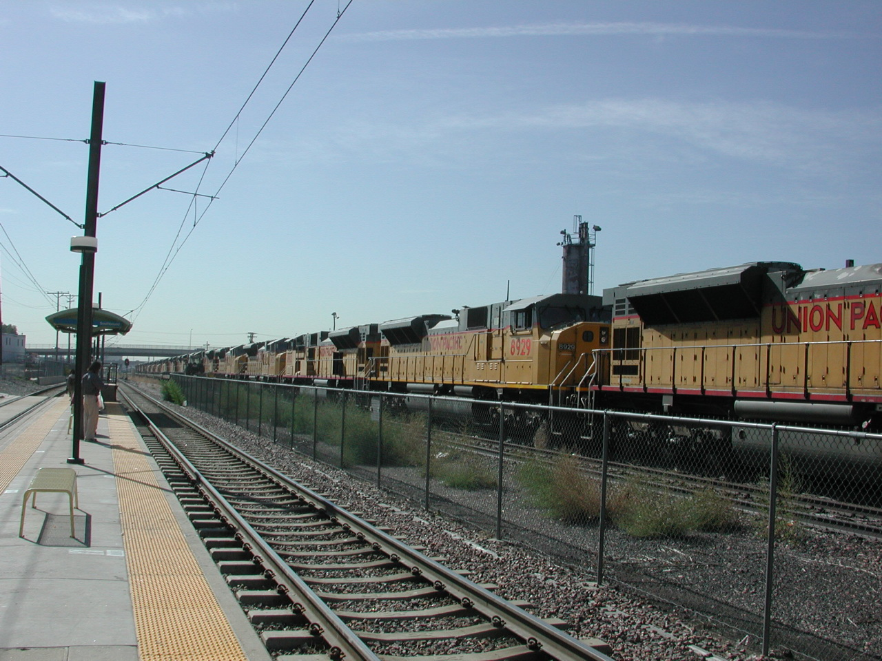 The EMD SD90MAC is a 6250 horsepower (4.5 MW) C-C diesel-electric locomotive produced by General Motors Electro-Motive Division. It is, with the SD80MAC, one of the largest single-engined locomotives produced by that company, surpassed only by the dual-engined DD series. The SD90MACs feature radial steering trucks and an isolated cab which is mounted on shock absorbers to lessen vibrations in the cab. (Wikipedia)